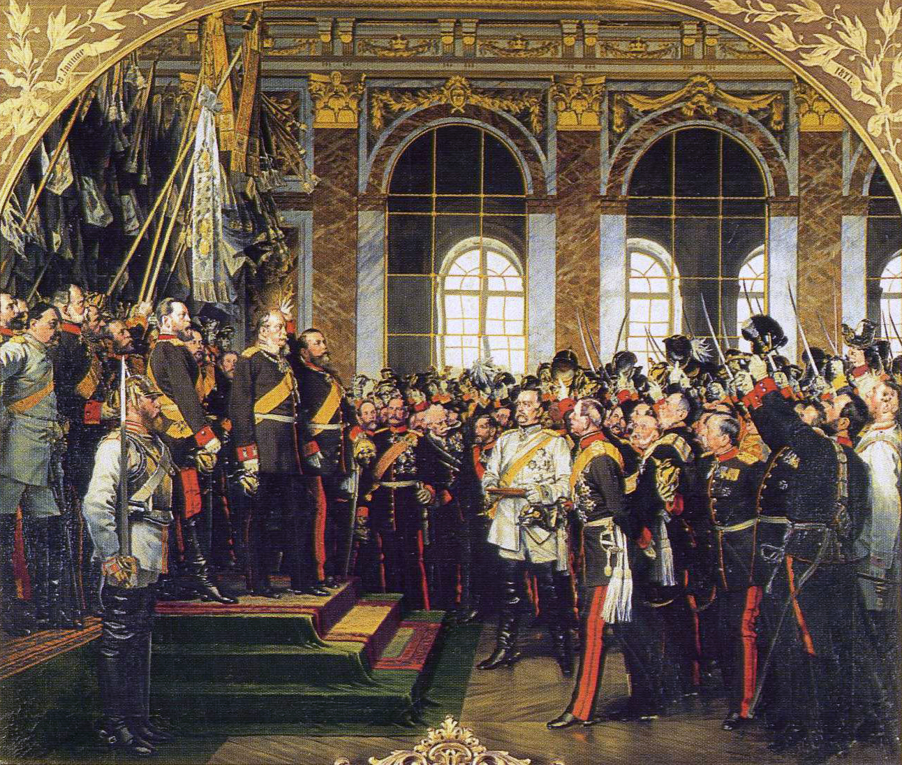 Crowning of Wilhelm I to emperor of Germany, in Versailles, by Anton von Werner.